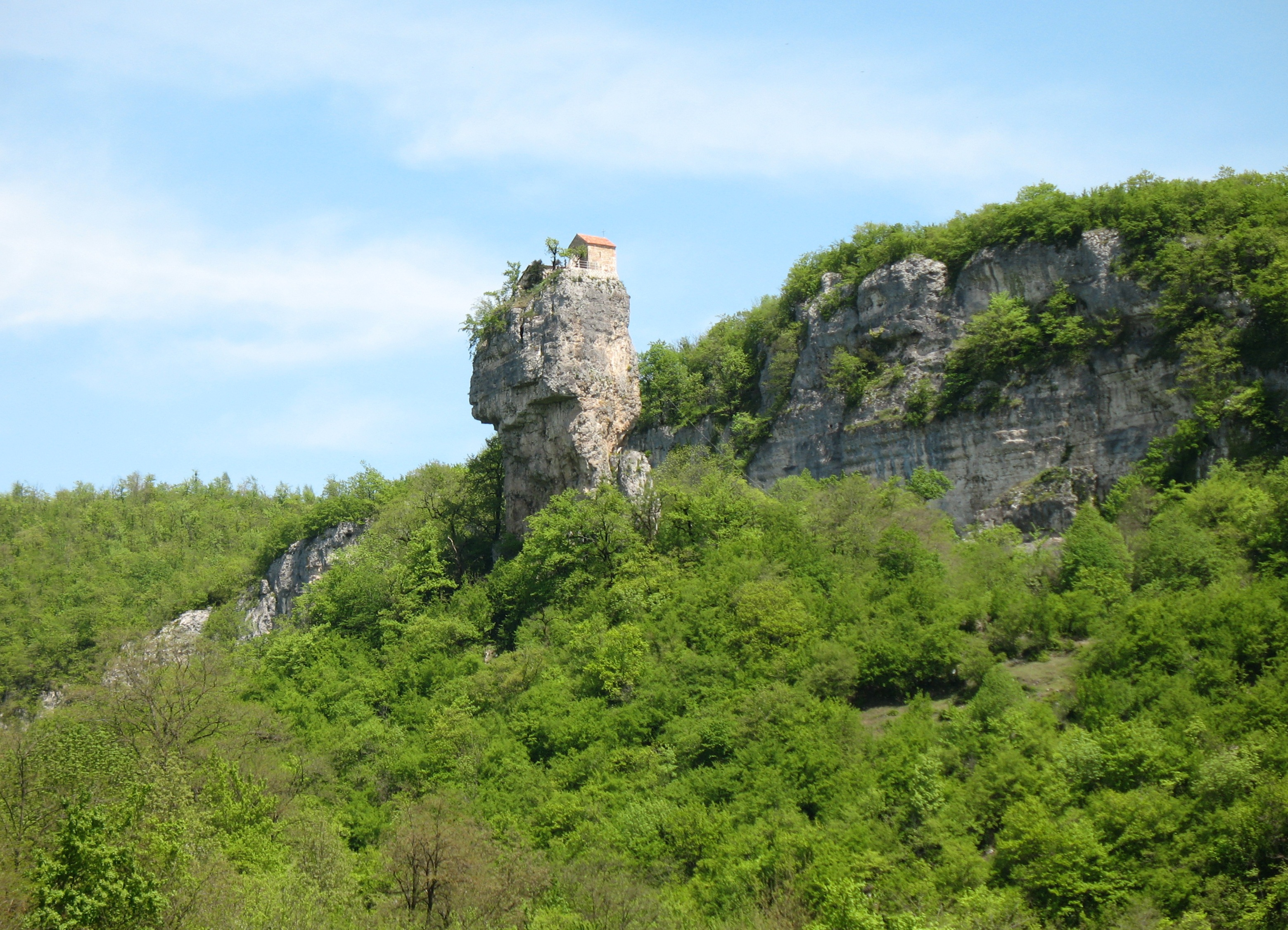 Katskhi stone column